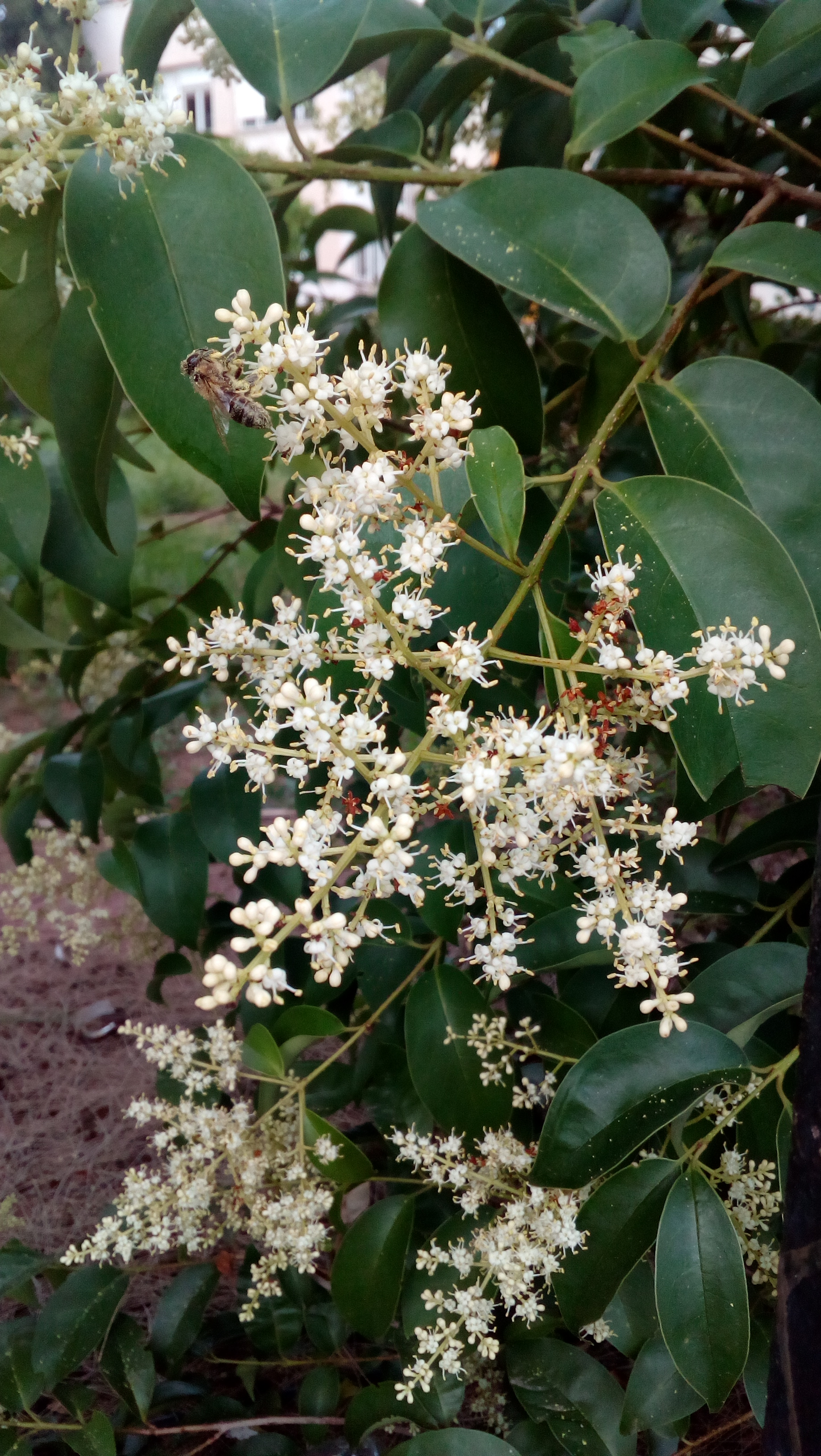 Ligustrum lucidum